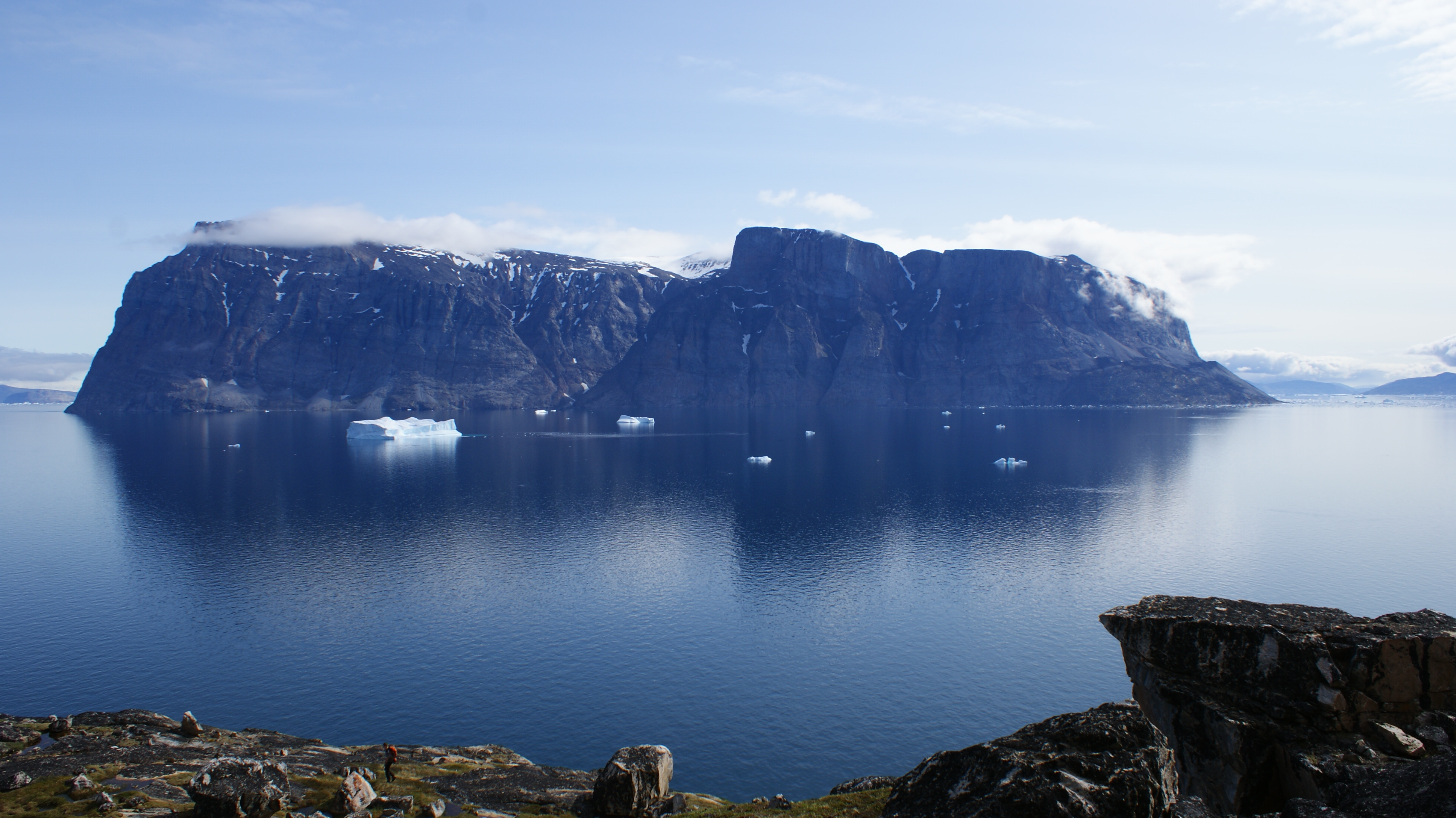 Salliaruseq Island, photographed from Nuussuatsiaq, at the base of the Eastern Wall of Uummannaq Twin Peaks. View across Assorput Strait.